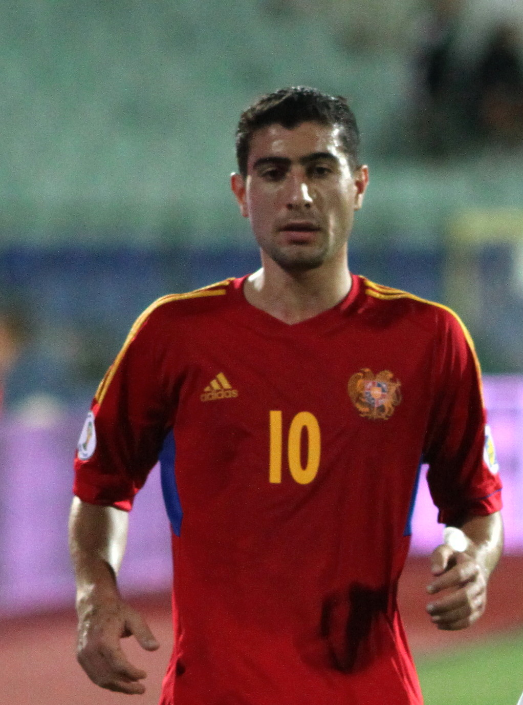 Gevorg Ghazaryan (Armenian: Գեւորգ Ղազարյան, born 5 April 1988 in Yerevan, Soviet Union) is an Armenian footballer.